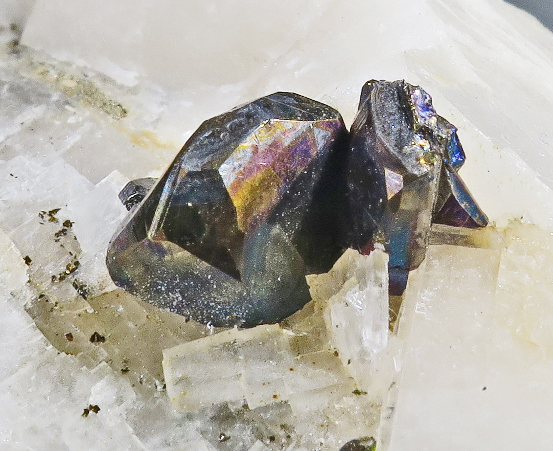 Carrollite Locality: Kamoto Principal Mine (Kamoto Fond Mine; Kamoto Mine), Kamoto, Kolwezi District, Katanga (Shaba), Democratic Republic of the Congo Field of view: 15 mm; Largest crystal size: 7 mm Original description: Carrollite crystals on dolomite